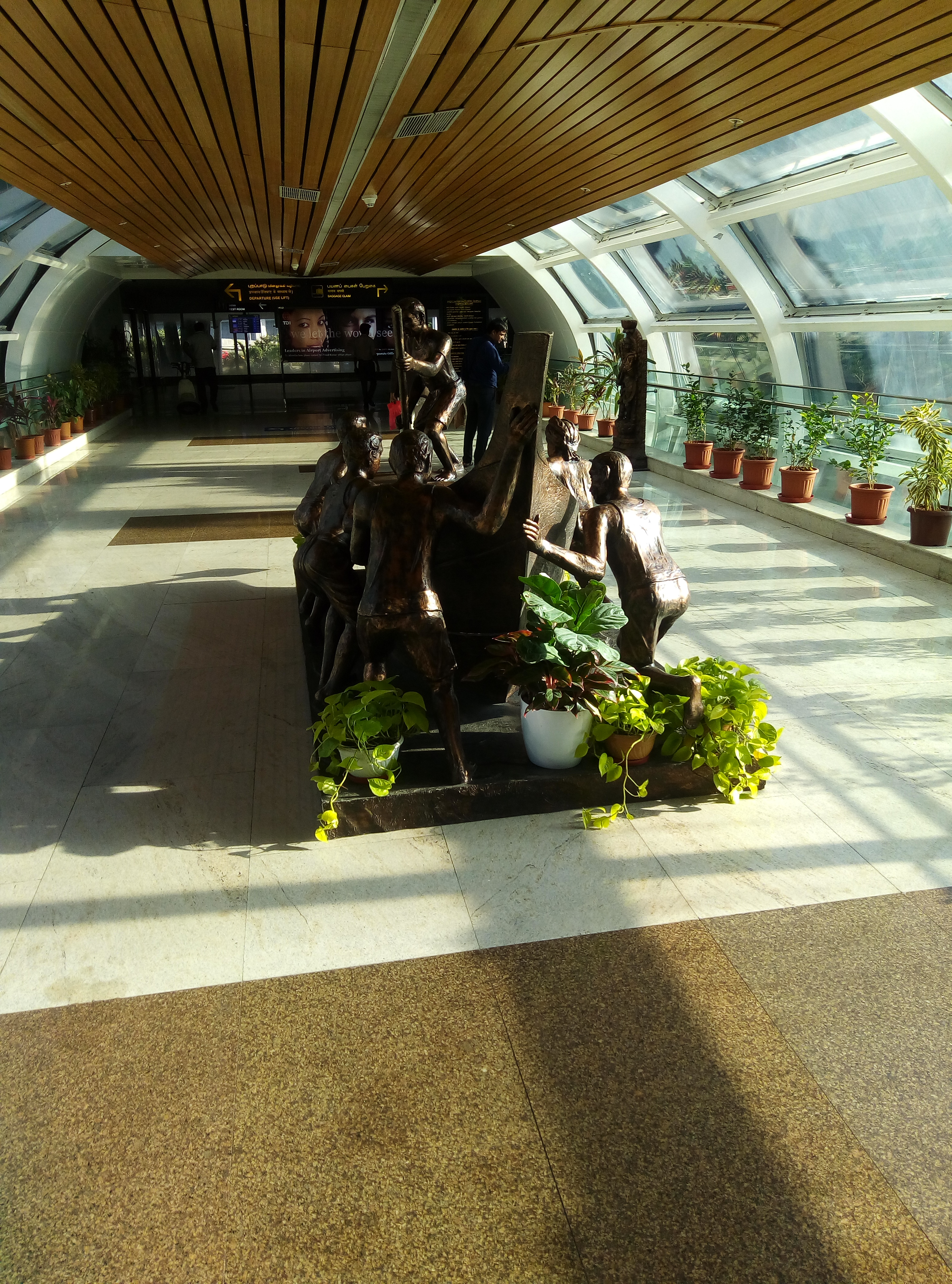 inside of chennai international airport